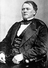 Jesse D. Bright, former member of the United States Senate from Indiana.